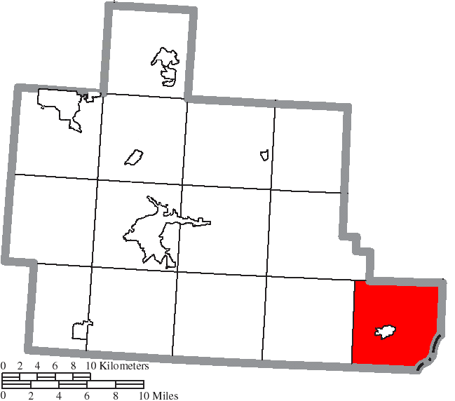 Map of the municipal and township boundaries of Athens County, Ohio, United States, as of the 2000 census, with the location of Troy Township highlighted. Township borders are shown only in unincorporated areas in order to differentiate incorporated and unincorporated areas more clearly.